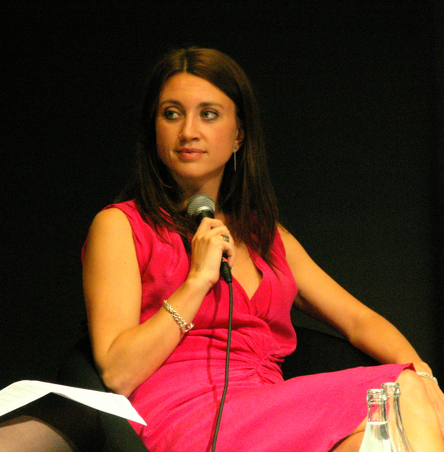 Camilla Läckberg at the 2011 Göteborg Book Fair (Sep.)